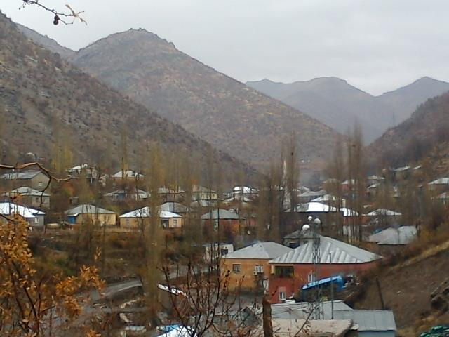 çıkas xweşike